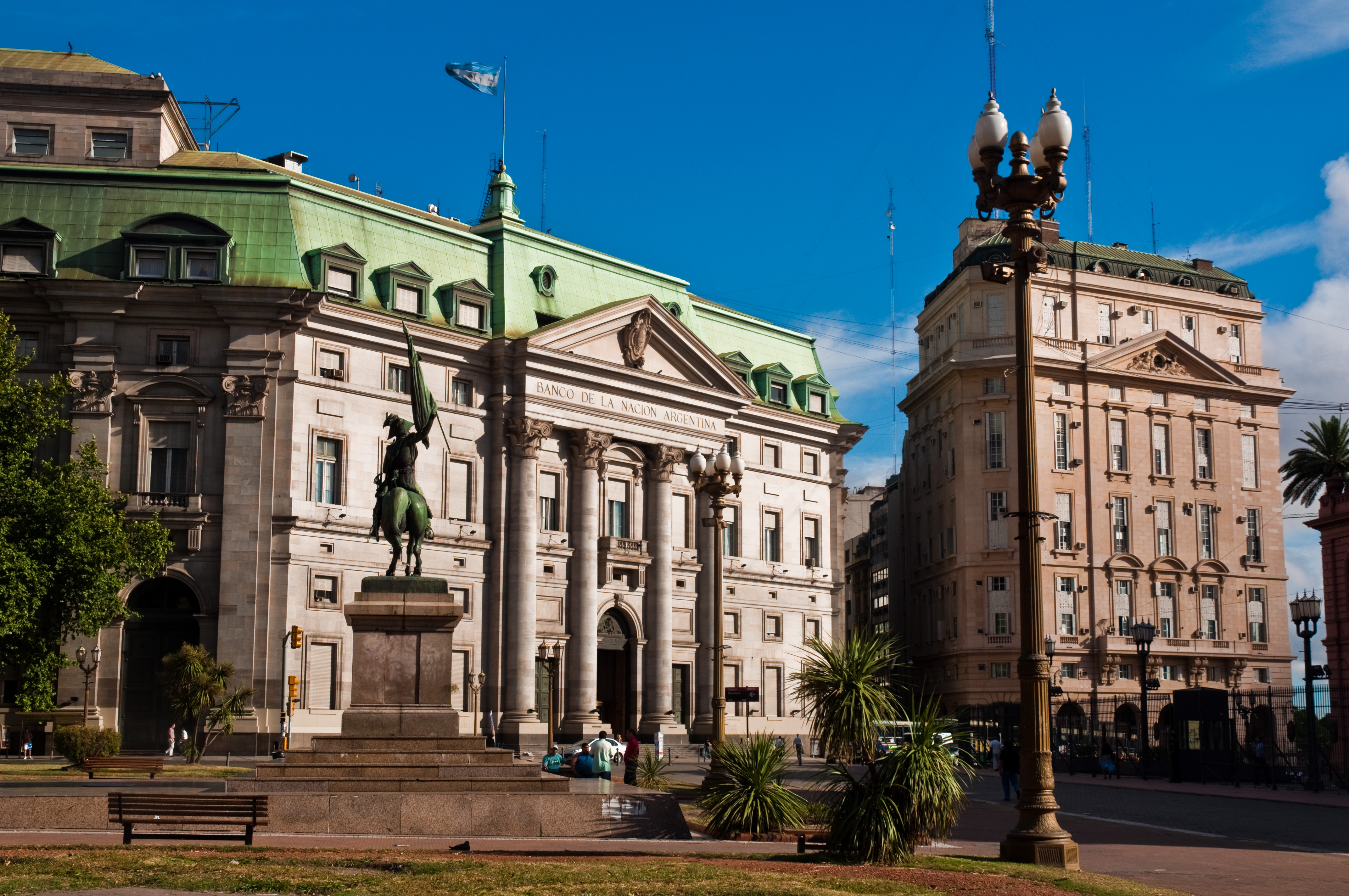 Bank of Argentina, Buenos Aires, 29th. Dec. 2010